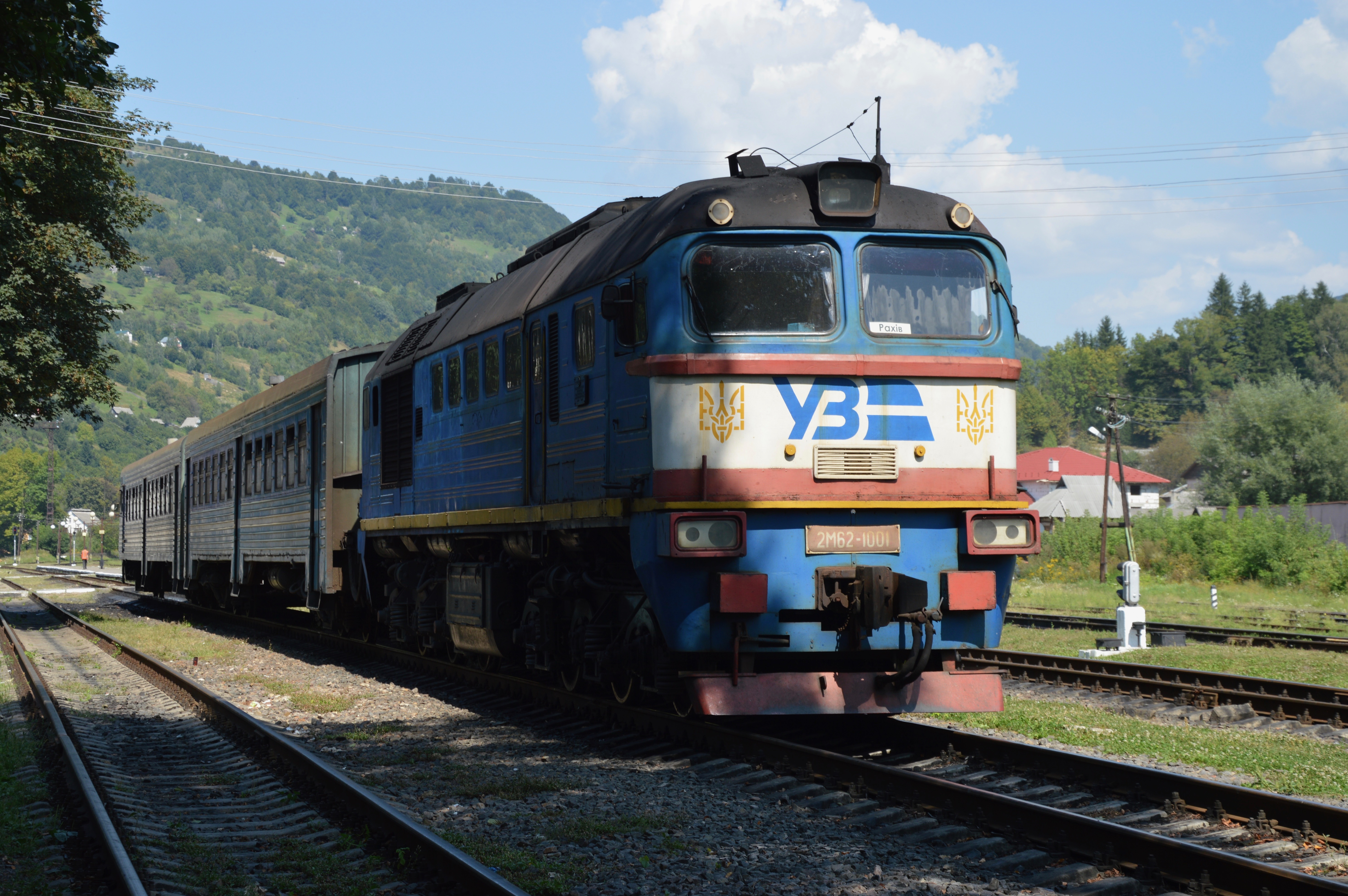 DPL1-006 diesel multiple unit with 2M62-1001 diesel locomotive at Rakhiv railway station (Ukraine)